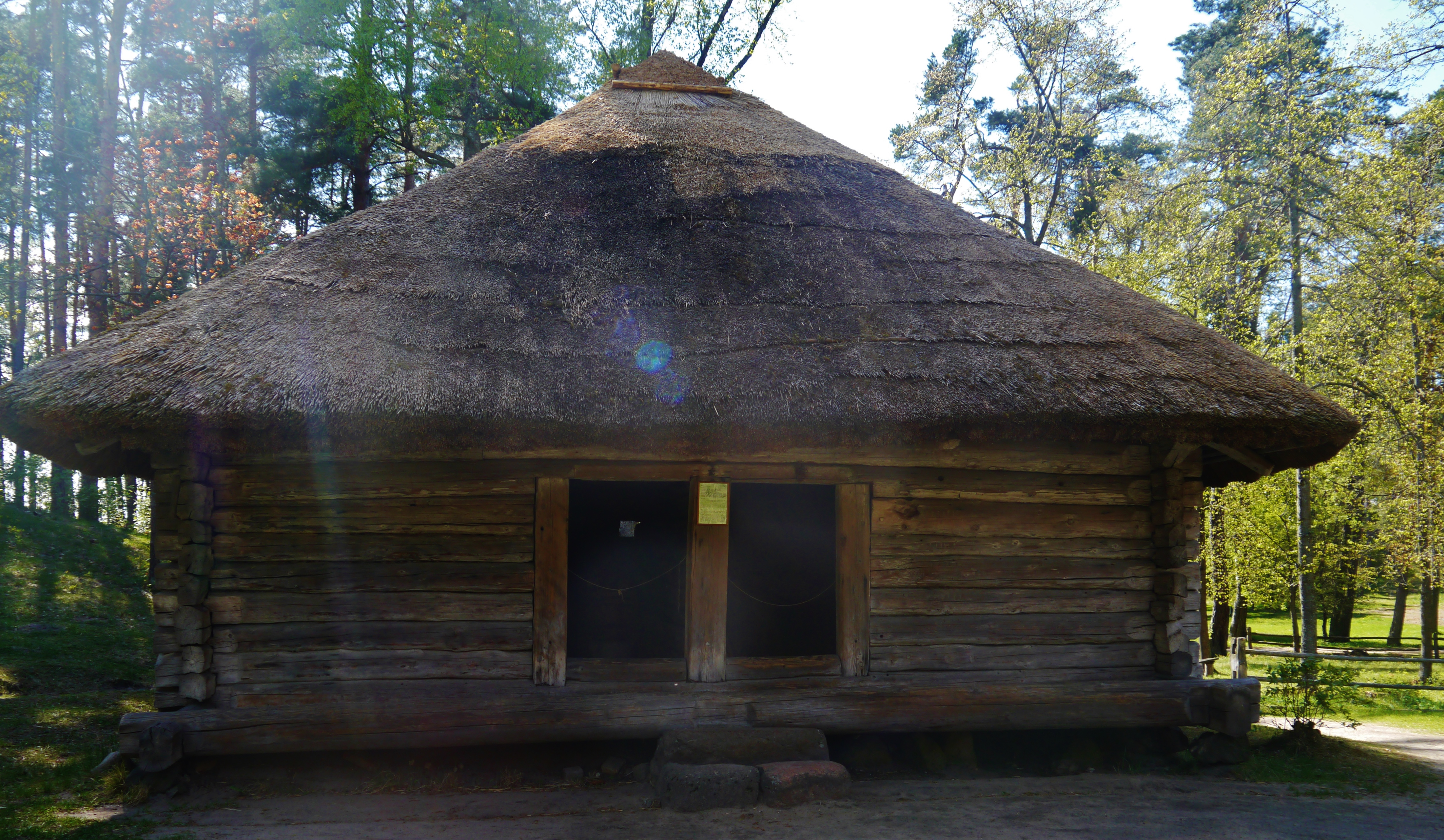 Houses of the Region of Vidzeme/Livonia, Ethnographic Museum, Bergi, Latvia